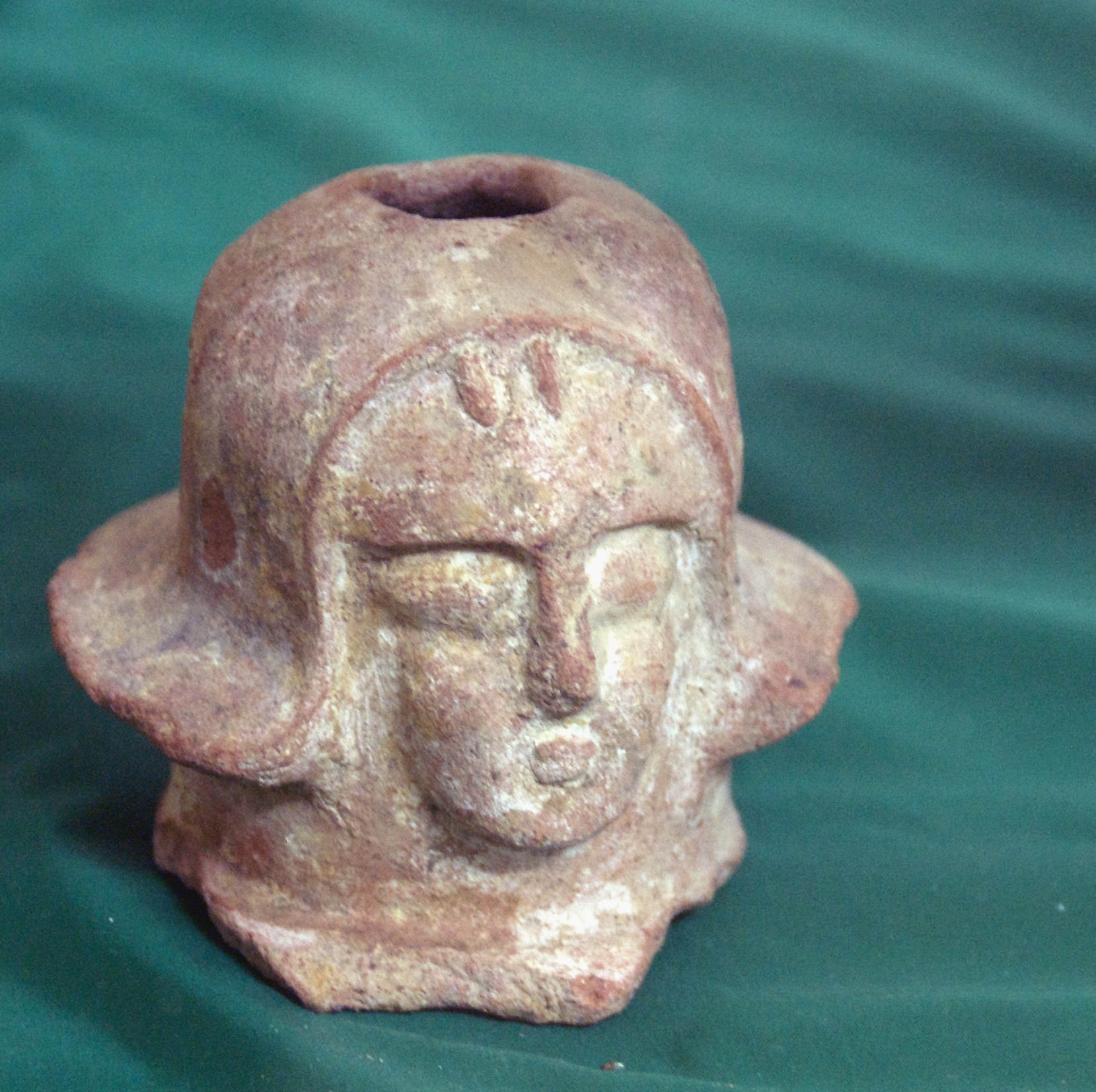 In the collection of the Archaeological Museum in Axum, Ethiopia. This is an example of a figural spout found on Axumite ceramic vessels. An intact example appears below. Spouts of this type feature a female head with a distinctive hairstyle or head covering that conforms tightly to the skull until it flares outward at a ninety-degree angle at a point between the cheekbones and the chin. Think Marlo Thomas in "That Girl." I'm tempted to say vessels of this type were votive goods associated with a goddess cult, which if correct, might date them to a time before the Axumite King Ezana converted to Christianity in the third century. I also see possible phallic imagery in these spouts. Envision the jar turned so the face is looking away from you, and what have you got? On the other hand, one of my viewers observed the head reflects the common hairstyle in Tigray, the northern Ethiopian provice in which Axume is located. In any case, I'm no Joseph Campbell, nor even a cultural anthropologist, so I will leave the reconstruction of Axumite spiritual beliefs and fashion to others. The Axumite Kingdom evolved from a city-state to a regional power between the second century before the current era and the second century of the current era. At its peak between the third and sixth centuries of the current era, Axum controlled inter-regional and Red Sea trade. Axum is believed to have traded widely, with contacts in Byzantium, Alexandria and southern Europe. Axum began to decline in the seventh century with the spread of Islam, which severed the trade routes that had been Axum's economic lifeblood. A remnant of the Axum Kingdom persisted in the Blue Nile region until a rebellion finished it off in the tenth century. I've complied with restrictions on the use of flash, and taken photos only when permitted by the museum.